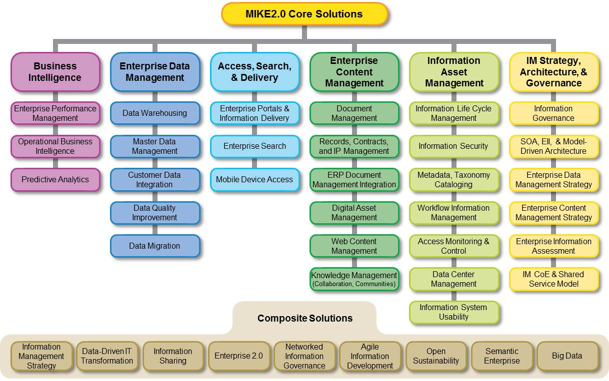 Screenshot from the main page of MIKE2.0: information management; open source For MIKE2.0